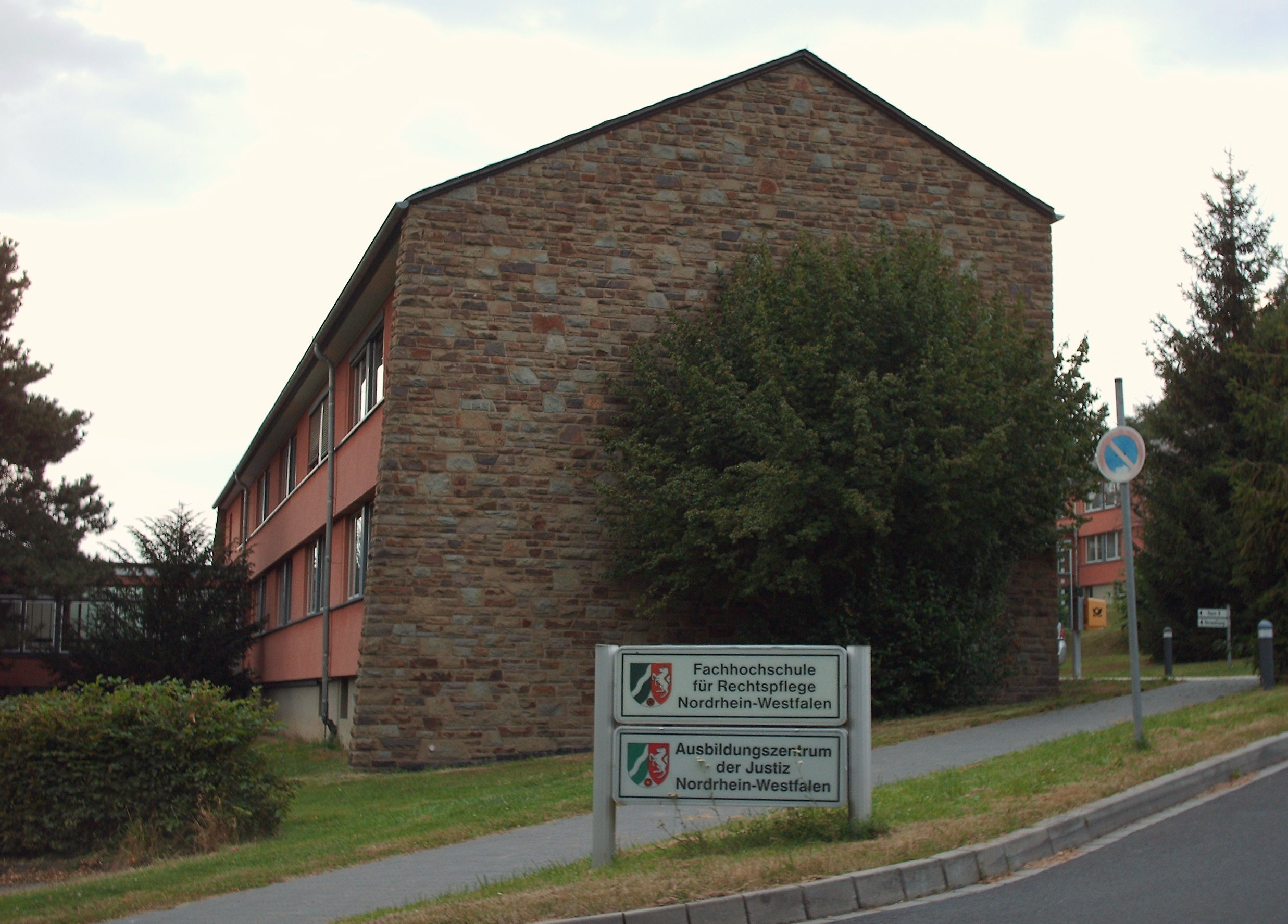 UAS of Law, Bad Münstereifel, Germany check usage